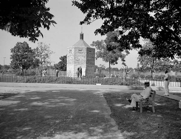 Audubon Zoo, New Orleans. WPA built Monkey Island. Exterior. 9/1/1936